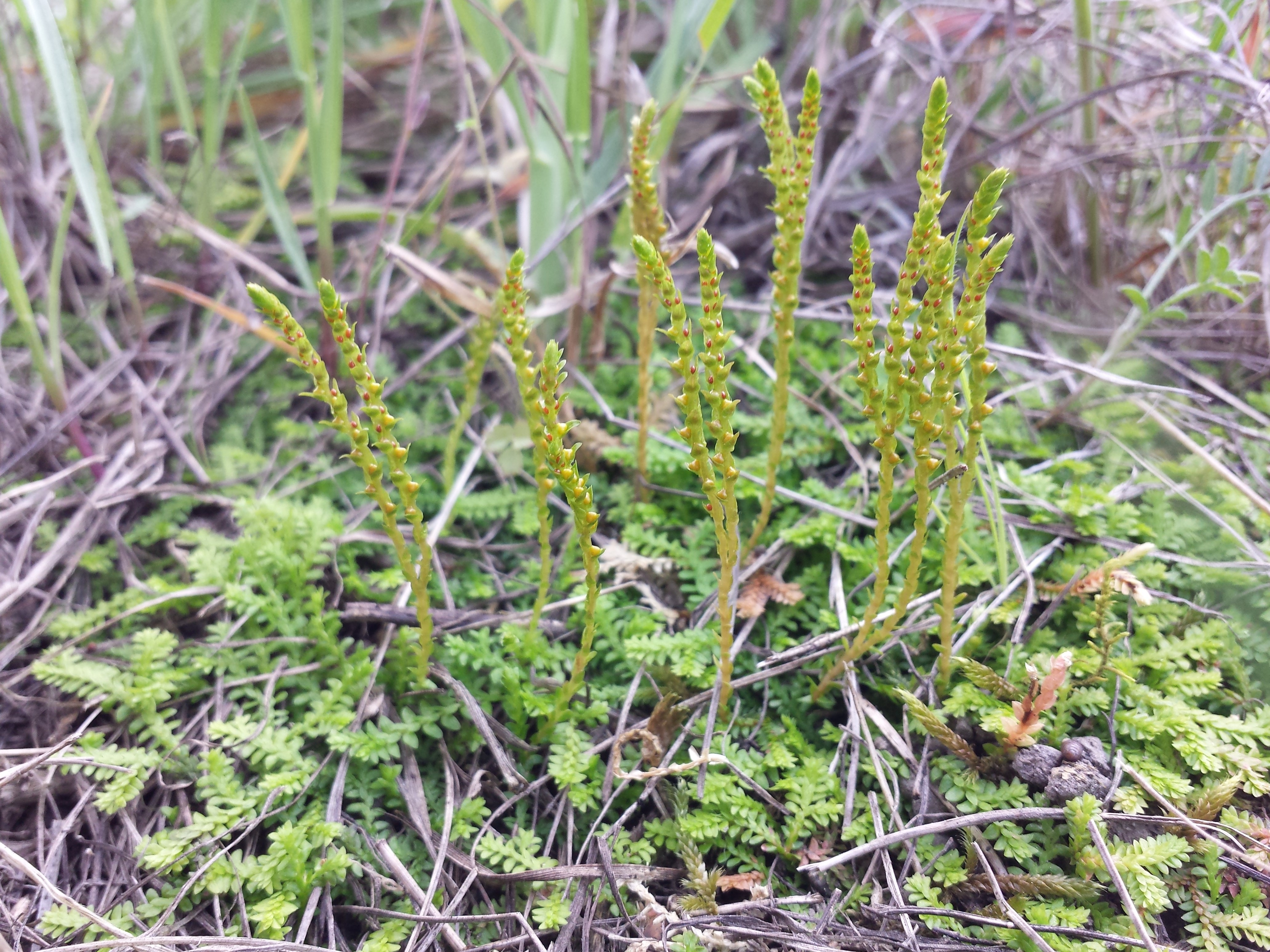 Habitus Taxon: Selaginella helvetica (sensu Fischer et al. EfÖLS 2008 ISBN 978-3-85474-187-9; det. M. A. Fischer 2014-05-10) Location: Lobau, national park Donauauen, Vienna-Donaustadt - ca. 150 m a.s.l. Habitat: dry grassland within floodplain This file shows the National Park Donau-Auen in Austria. This media shows the nature reserve in Vienna with the ID 2.